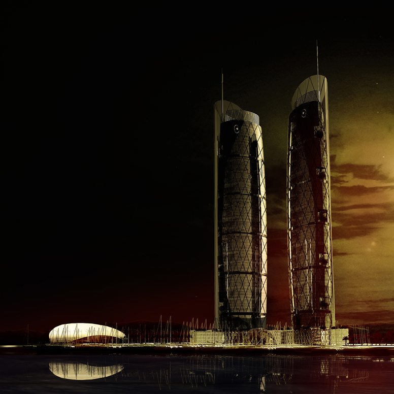 Night image of the towers and the marina